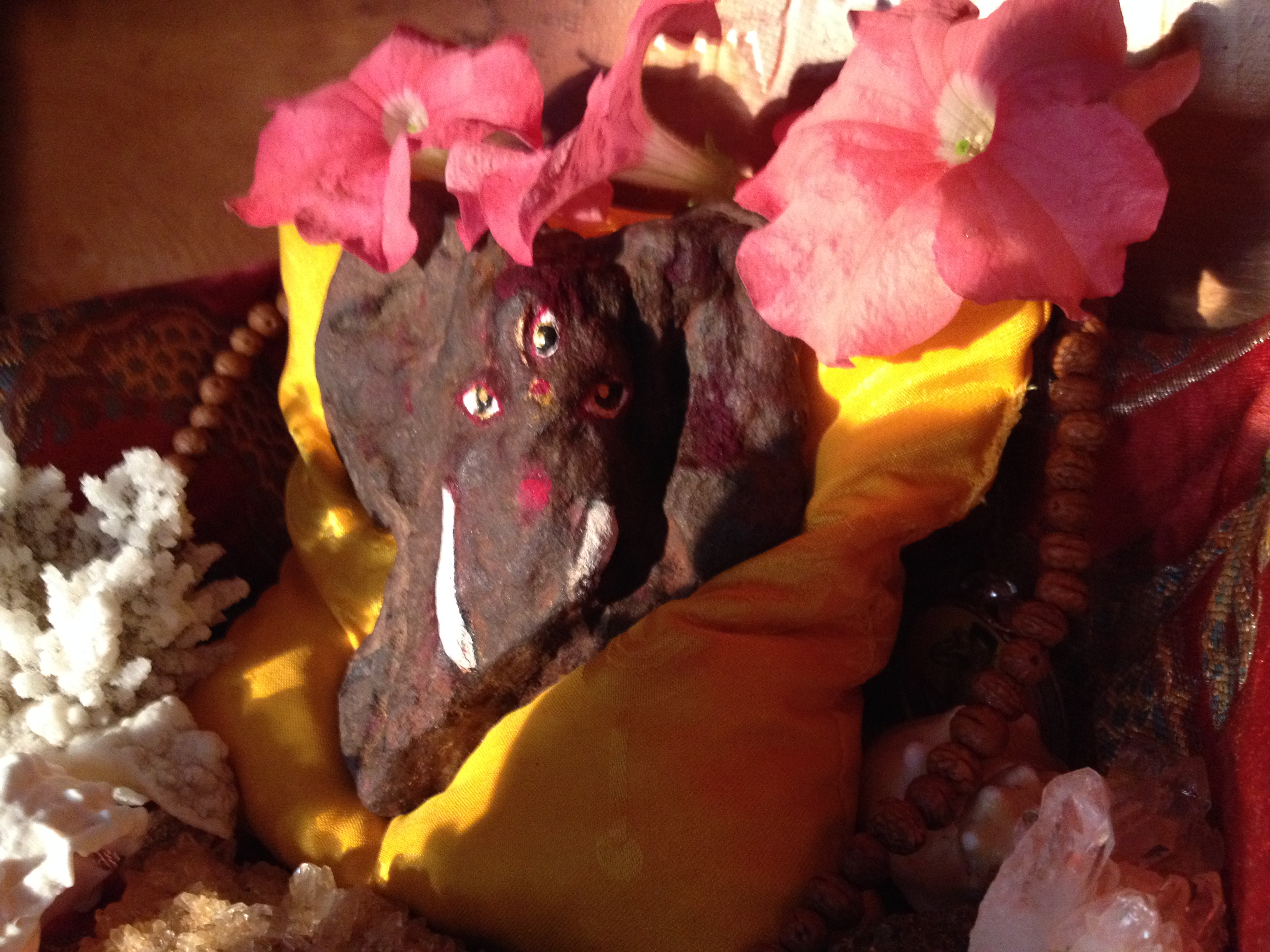 This Swayambhu was found by Lama Jigmed Phuntsok while digging into the foundation of his 1880's house in Baltimore Maryland in 1995 to install a sump pump. Confirmed as an authentic Swayambhu by Lama Tsering Wangdu Rinpoche. Details were painted on recently.